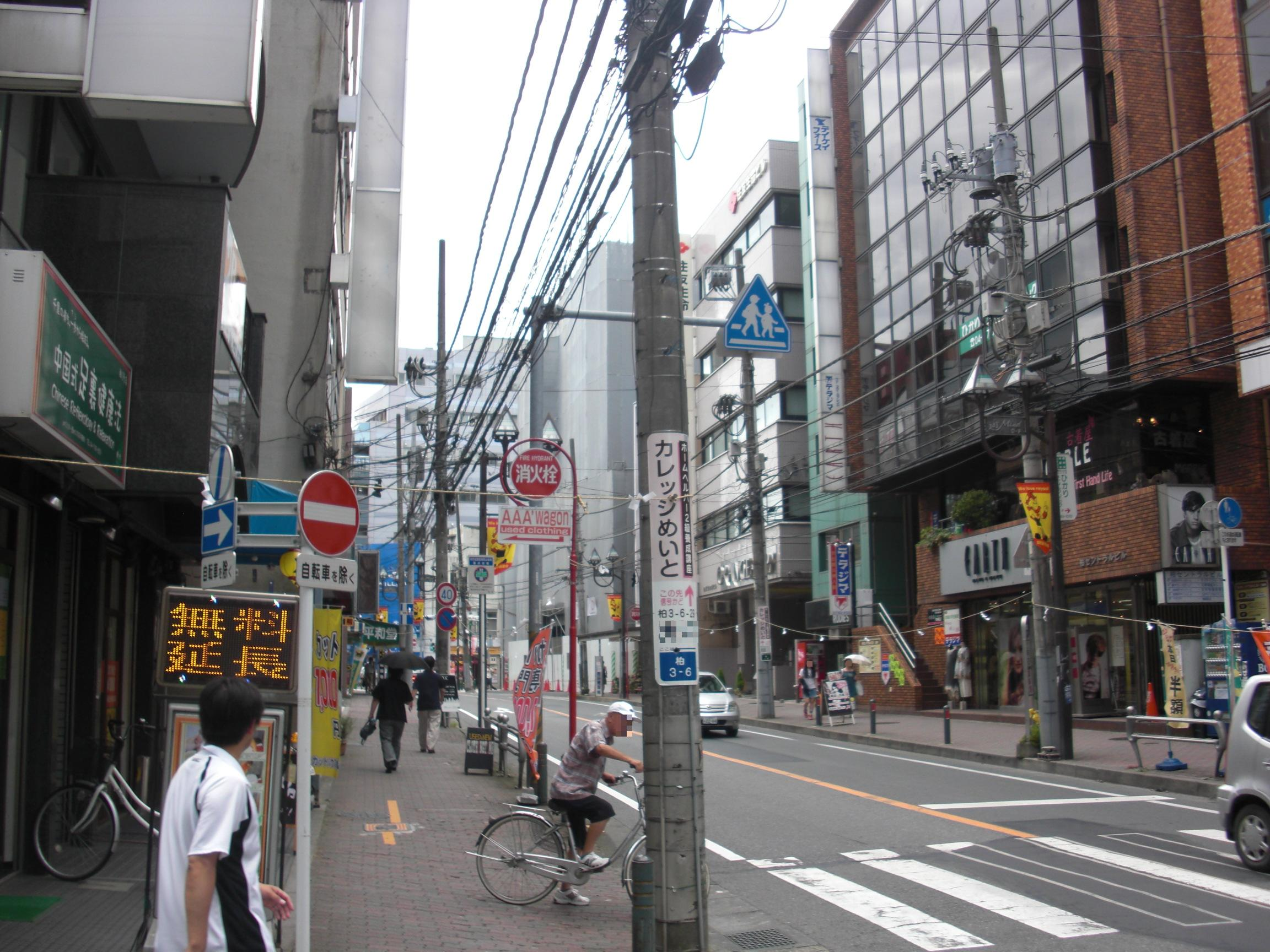 This is a landscape of